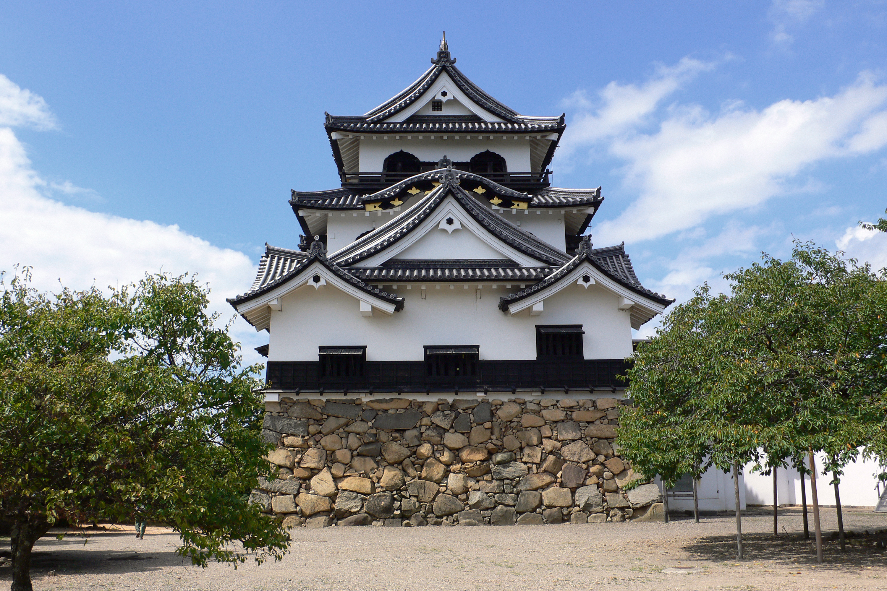 Hikone Castle Keep Tower in Hikone, Shiga prefecture, Japan